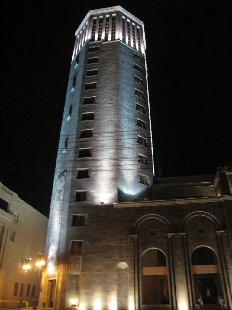 The headquarters of the Prosperous Armenia Party in Yerevan